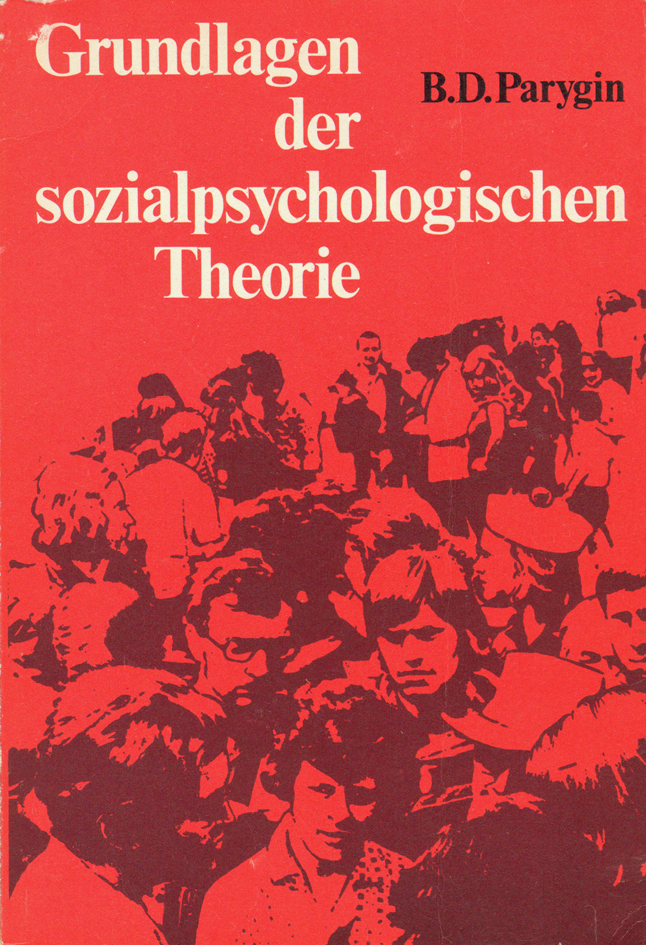 Boris Parygin The Basics of Socio-Psychological Theory. 1977. Book cover. Berlin.